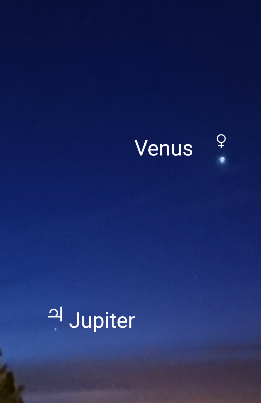 Venus and Jupiter